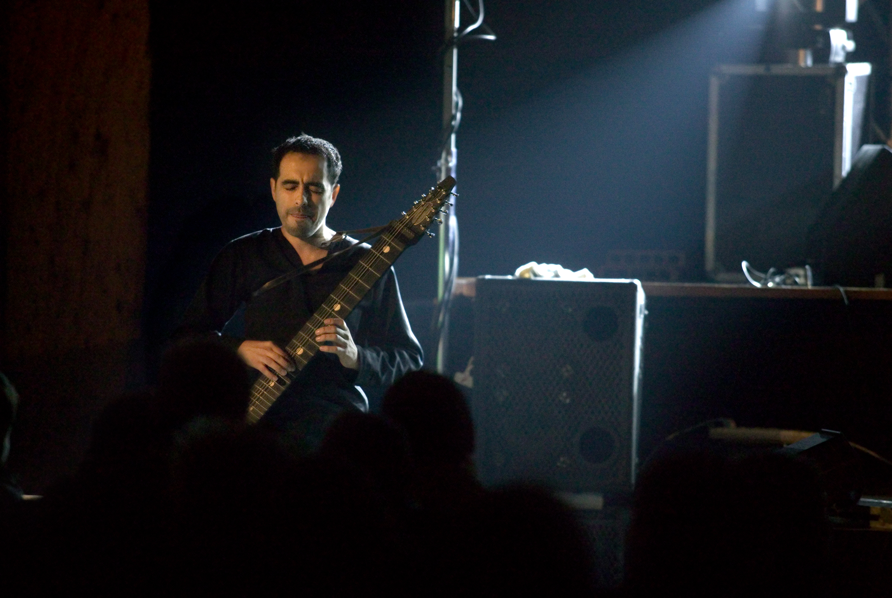 Guillermo Cides in concert